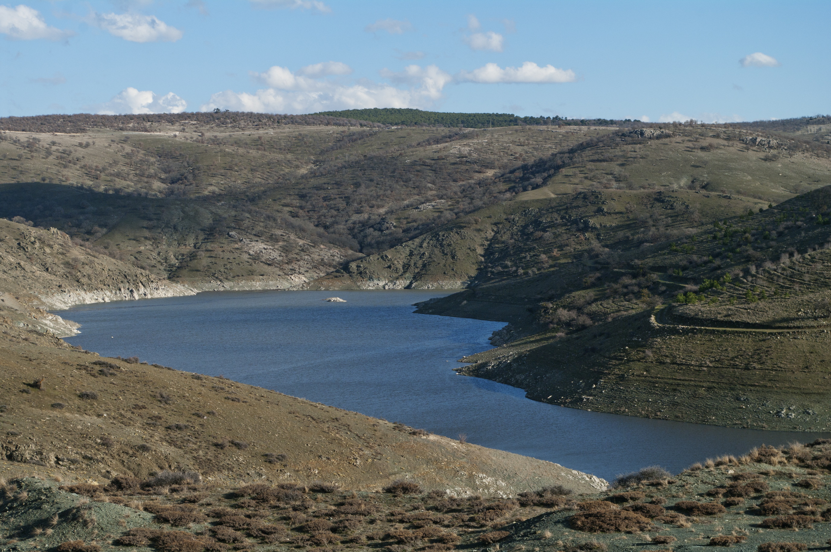 A view of Çatören Dam Lake on Harami River from the side of the Road D665 (Afyonkarahisar - Eskişehir Road). Seyitgazi, Eskişehir - Turkey.